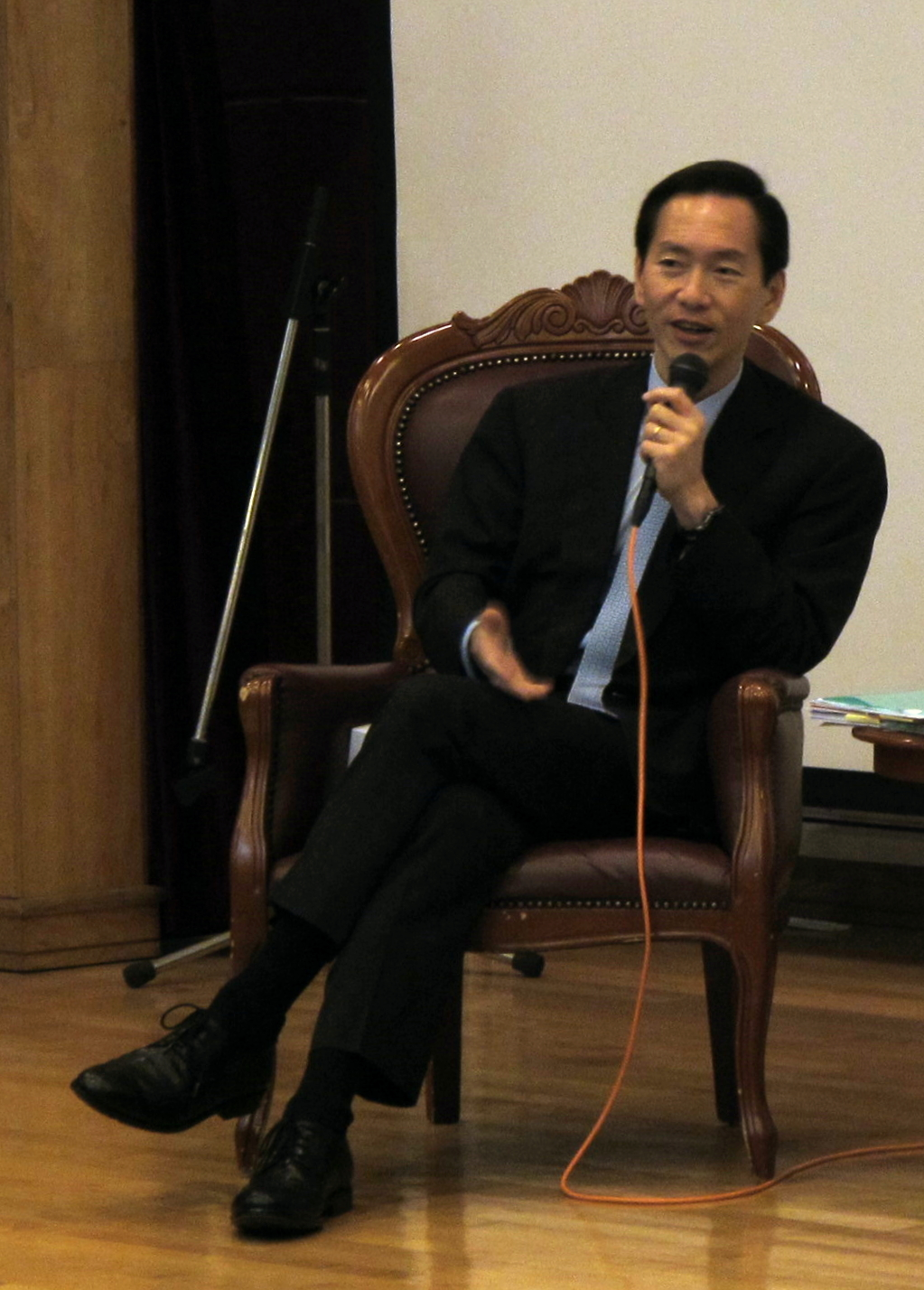 Bernard Charnwut Chan 陳智思